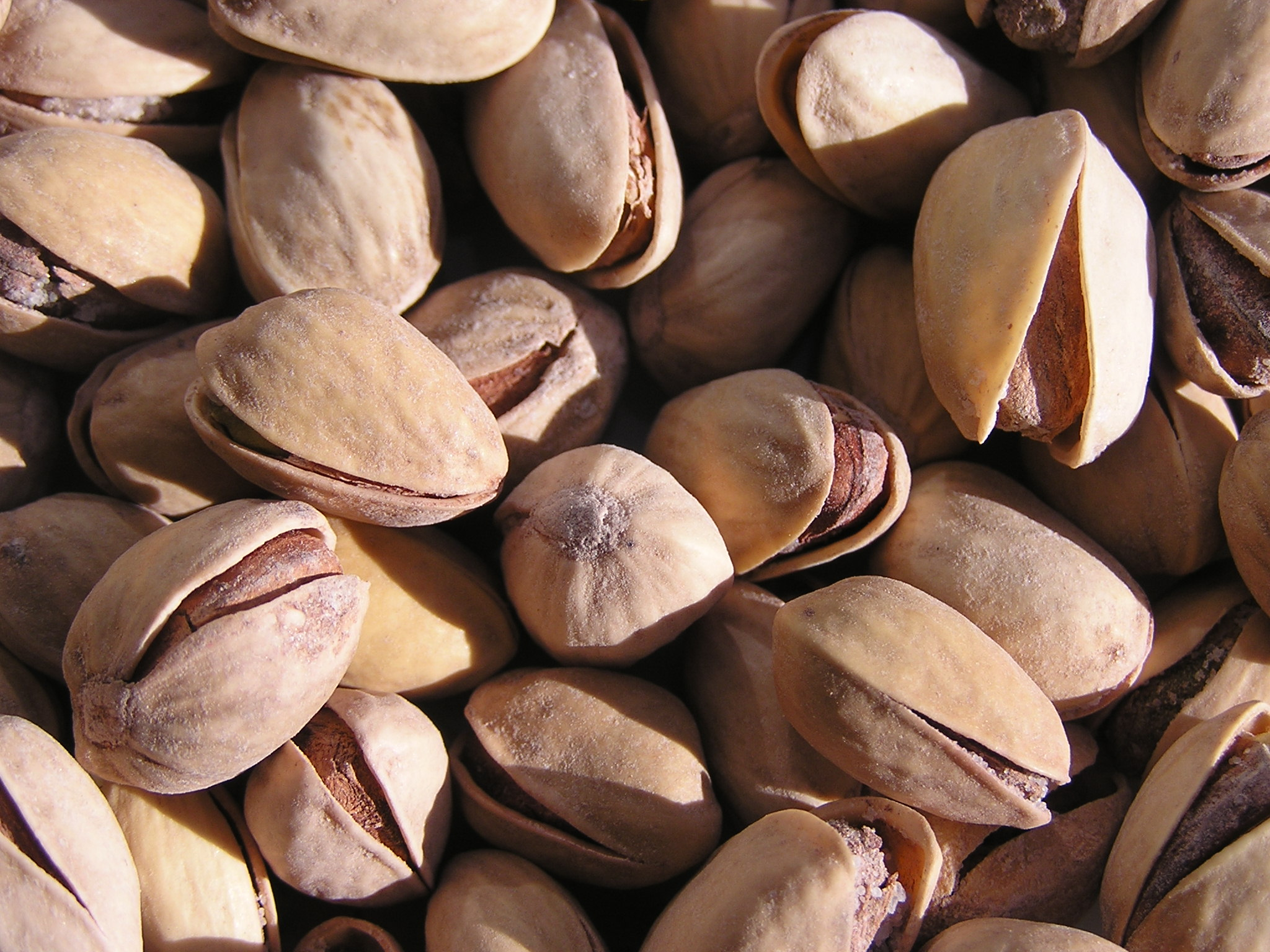 Pistachio nuts